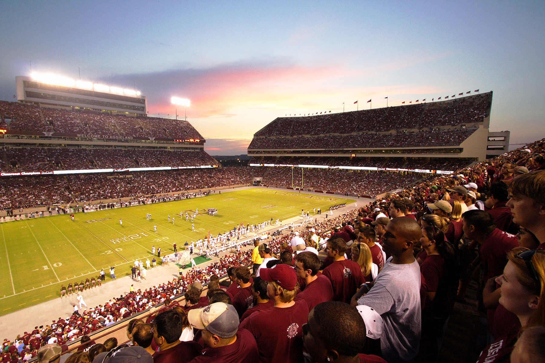 Texas A&M Aggies vs. Montana State Bobcats college football game at Kyle Field on September 1, 2007. Texas A&M won the game 38-7.